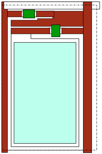 Organic light-emitting Panel's single pixel model 2 (No Text)